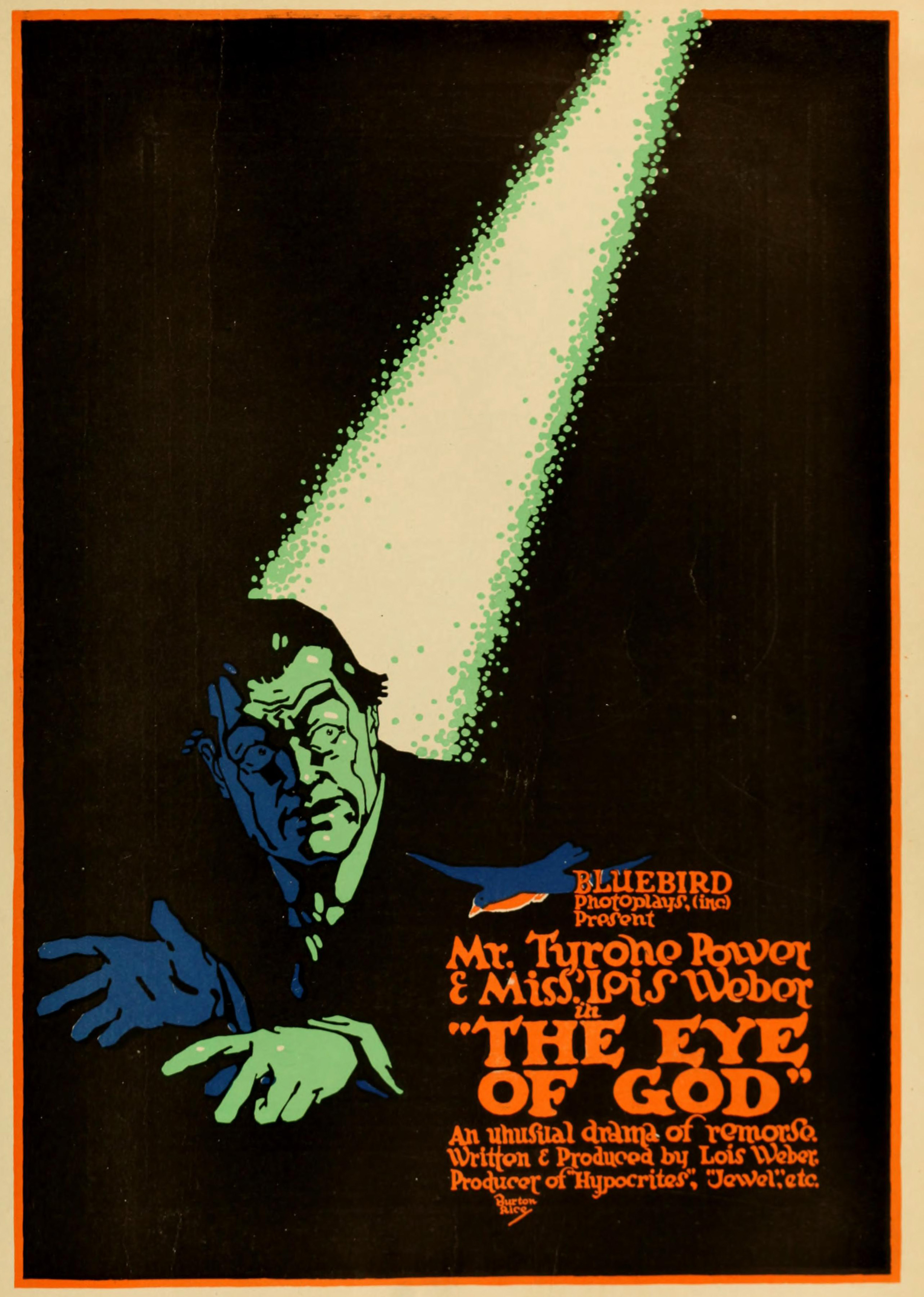 Advertisement in The Moving Picture World for The Eye of God (1916).